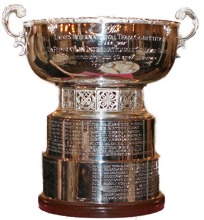 Fed Cup Trophy